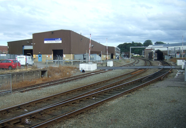 Railway crossing, Inverness Rail Depot